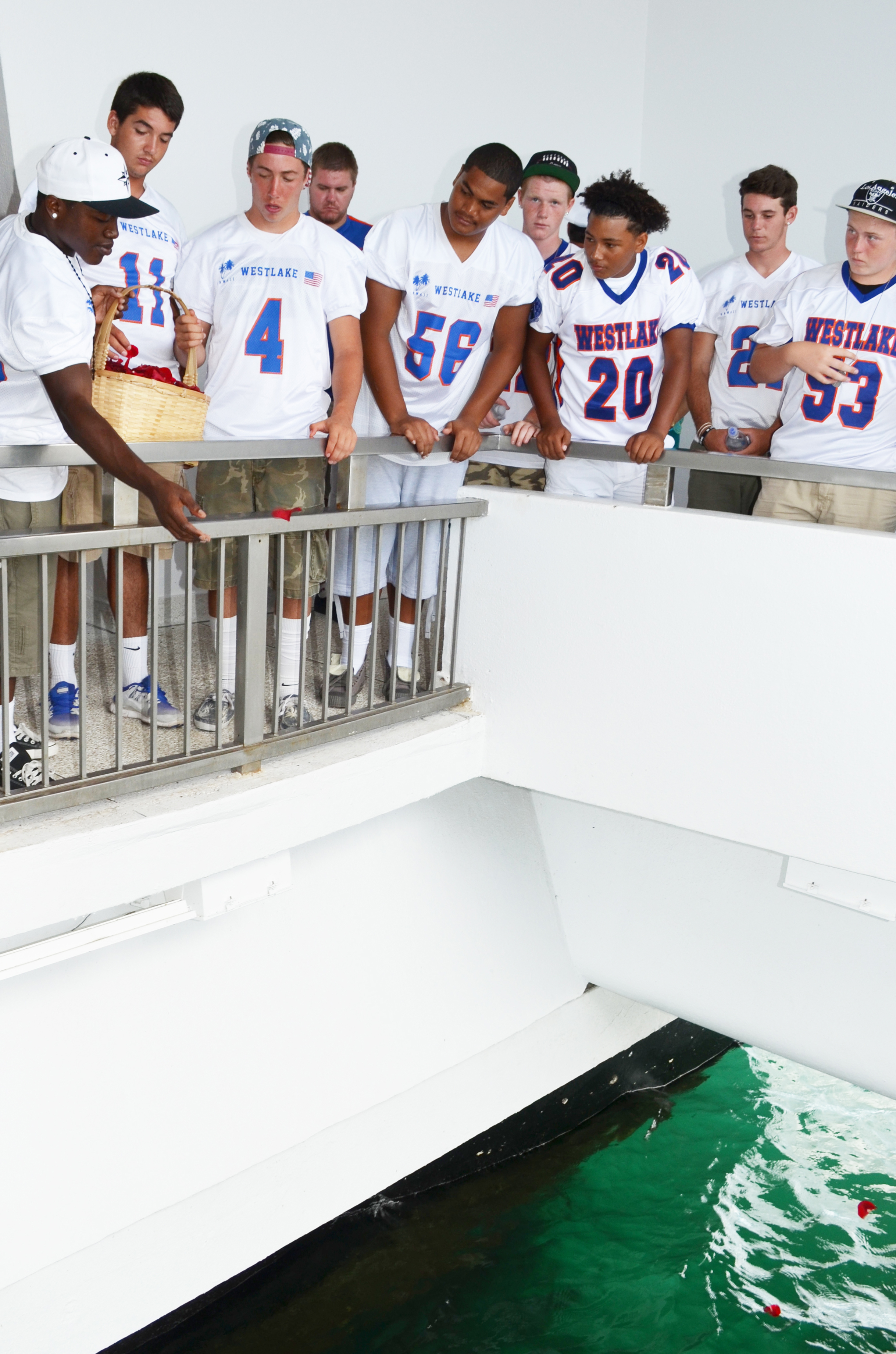 California's Westlake High School Football Team players drop flower petals in the water in honor of Lt. j.g. Francis L. Toner IV and Spc. A.J. Castro during a memorial held at the USS Arizona Memorial. Toner and Castro, graduates of Westlake, died during Operation Enduring Freedom. (U.S. Navy photo by Christine Rosalin/Released)